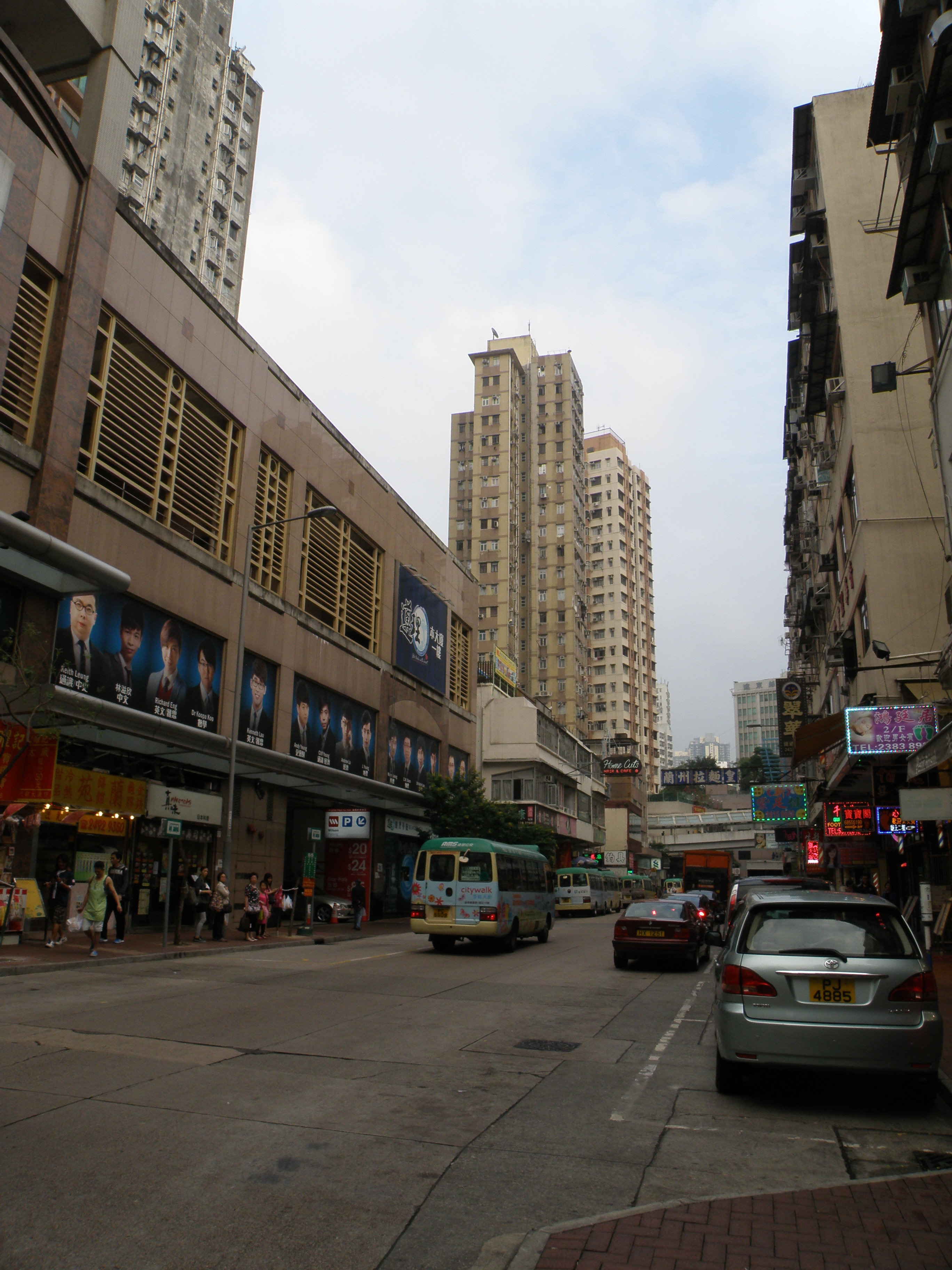 Shiu Wo Street in Tsuen Wan, Hong Kong.